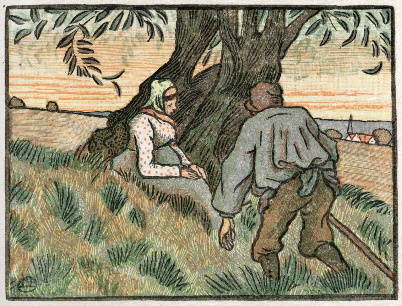 Coloured wood engraving of a pastoral scene by Lucien Pissarro (1863-1944), son of the French Impressionist painter Camille Pissarro (1830-1903) and co-founder along with his wife Esther (1870-1951) of the Eragny Press in London. The press ran from 1895 to 1914 and produced 32 books. Esther became skilled at typesetting and printing, while Lucien acted as designer and wood engraver. Emile Verhaeren, Les petits vieux. London: Hacon & Ricketts [i.e. Vale Press] … [1901].